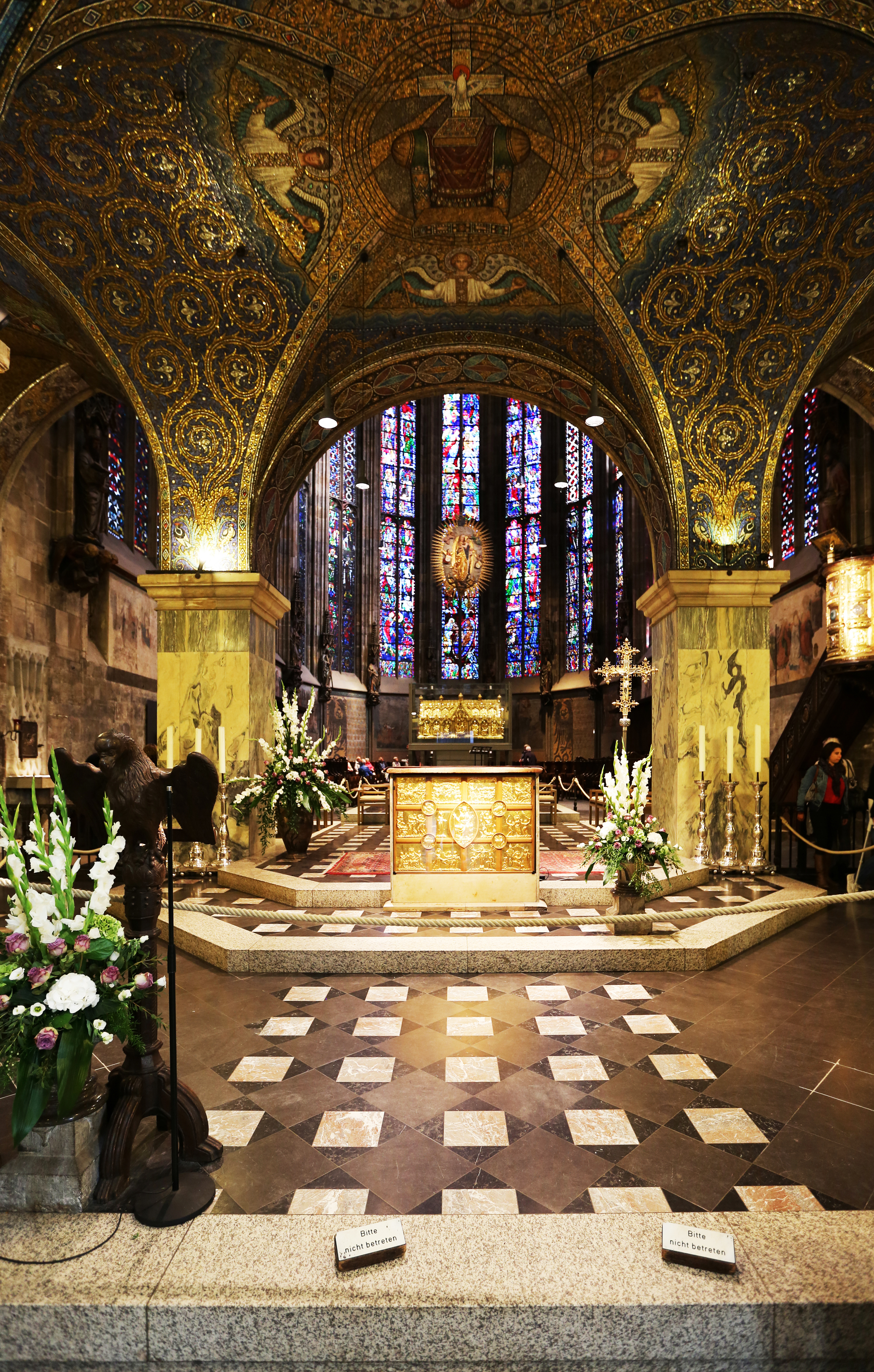 Altar “Pala d’oro” and Shrine of Mary, seen from Oktogon. In background the stained glass windows in the Choirhouse of Aachen cathedral, Germany